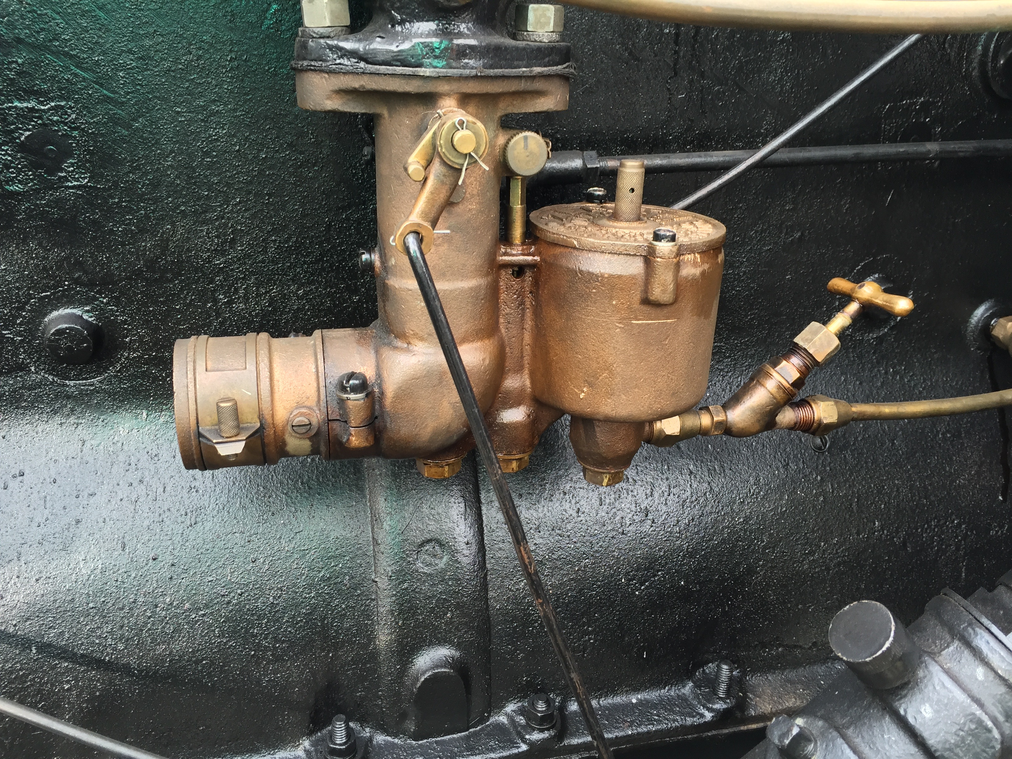 Zenith carburetor on a 1923 Nash Six Touring Car - Model 691 - finished in blue with black trim. The six-cylinder, 249 cubic-inch (4.08 L) engine develops 55 horsepower. This big car is features a 127-inch (3226 mm) wheelbase chassis and two-wheel brakes (on the rear axle). Picture taken during the annual show by the Sugarloaf Mountain Region chapter of the Antique Automobile Club of America (AACA).